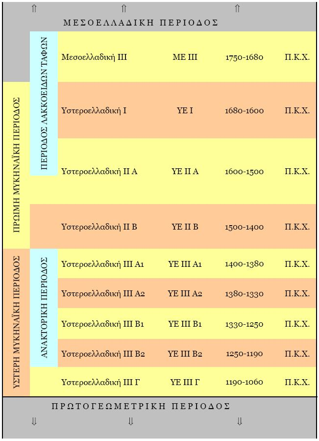 Mycenean Period table